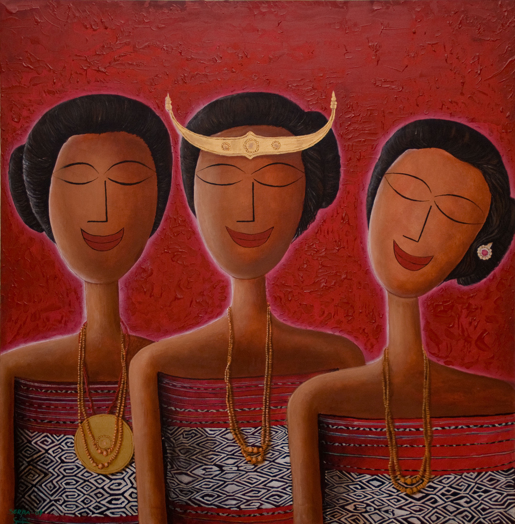 Painting commissioned by the East Timor Development Agency to celebrate Timorese independence. The women are wearing traditional Timorese costume and jewellery.